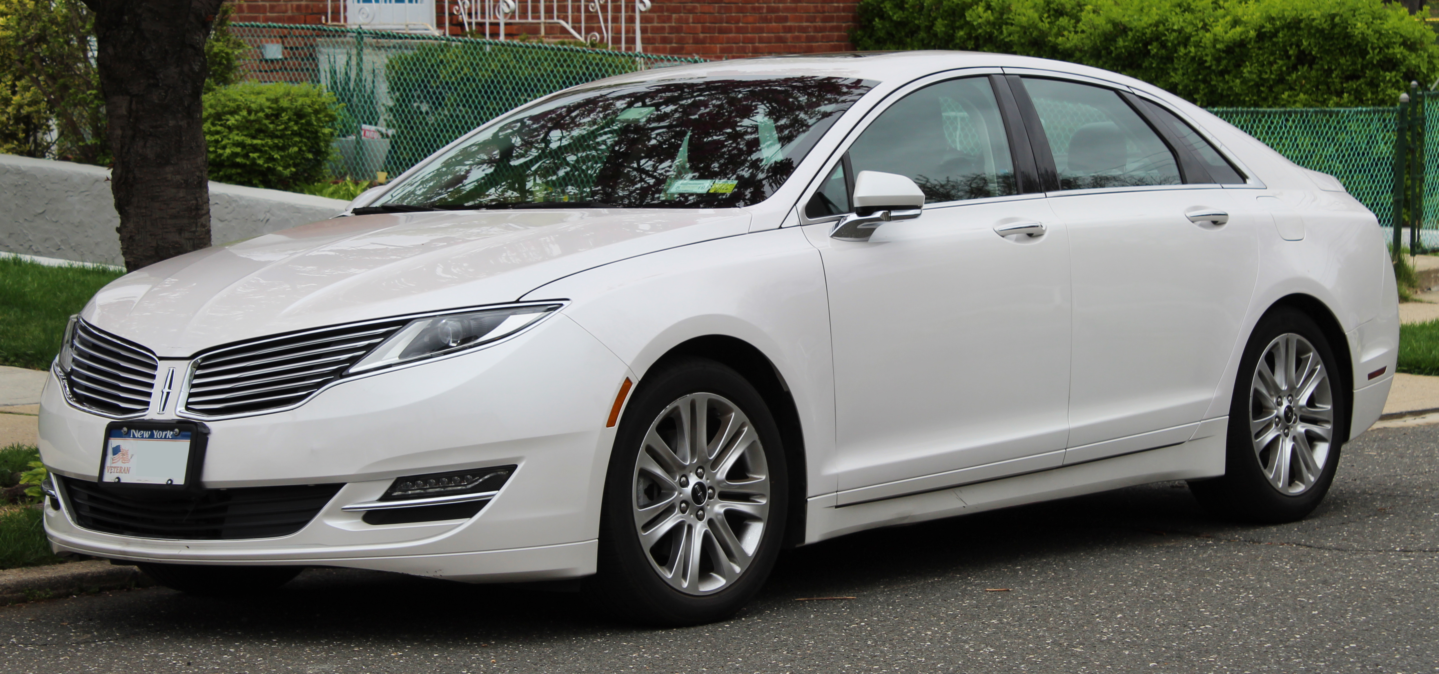 A 2016 Lincoln MKZ photographed in Bayside, Queens, New York, USA